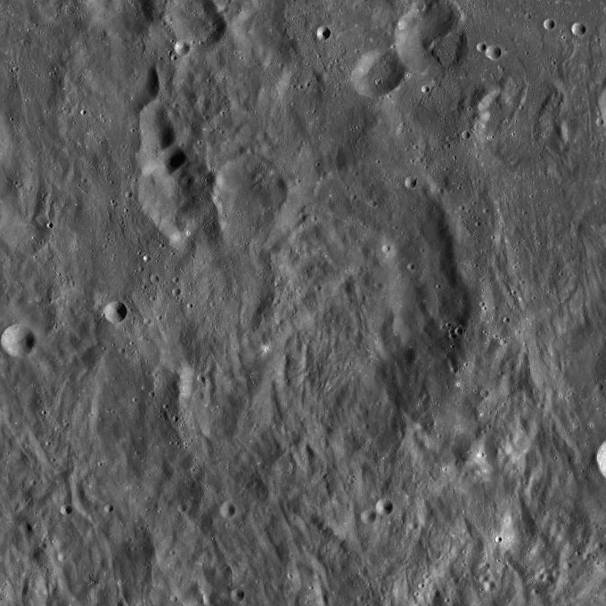 Elvey crater, on the far side of the moon. Mosaic of LRO WAC images.